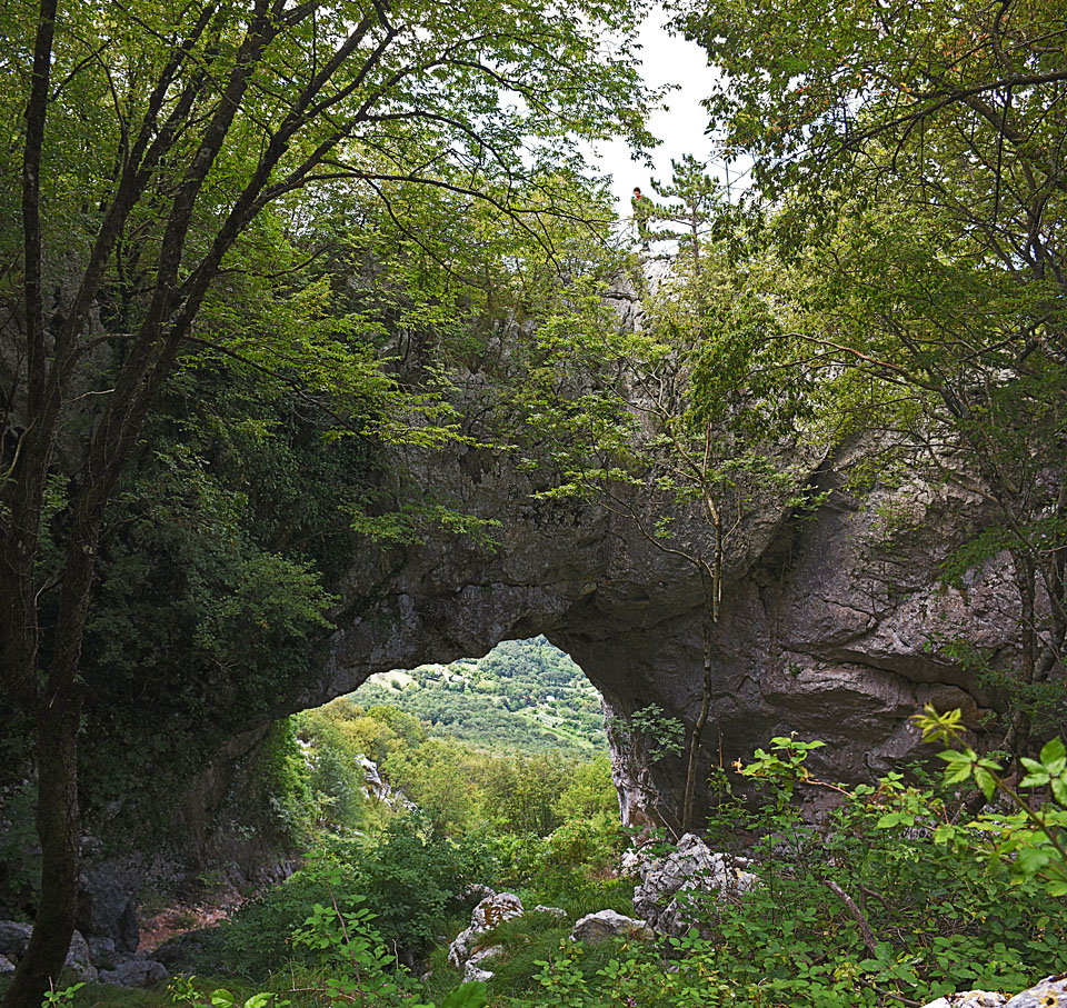 Skozno is a big natural rock window on the edge of Trnovski gozd (=Trnovo forest plateau).